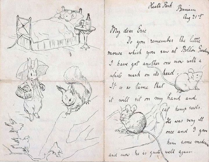 Letter written by Beatrix Potter with her own illustrations